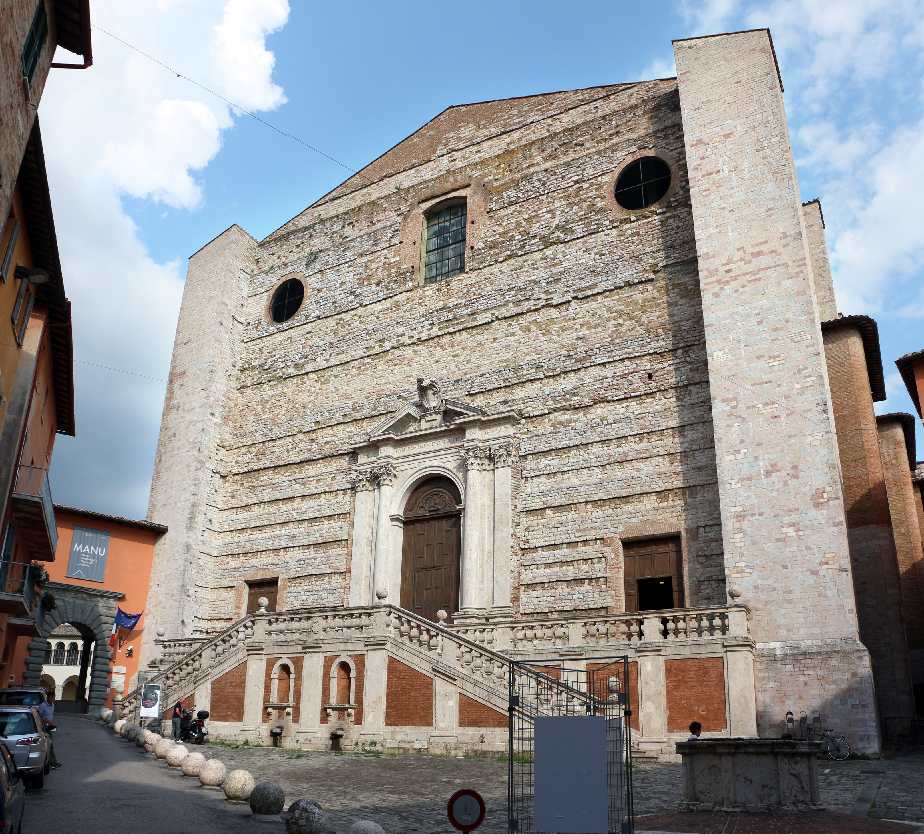 San Domenico (Perugia)